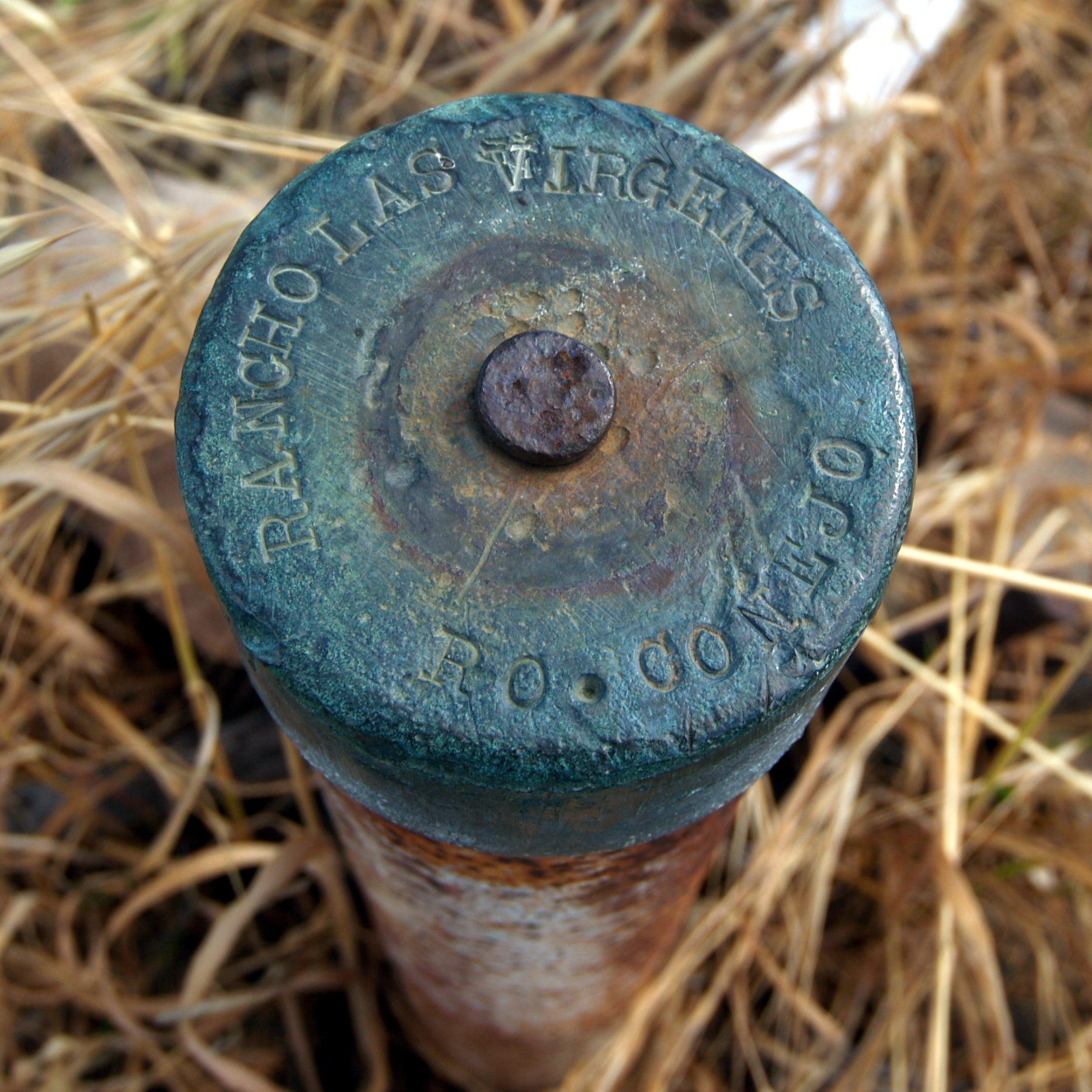 Marker denoting land boundary between Rancho Las Virgenes and Rancho Conejo.